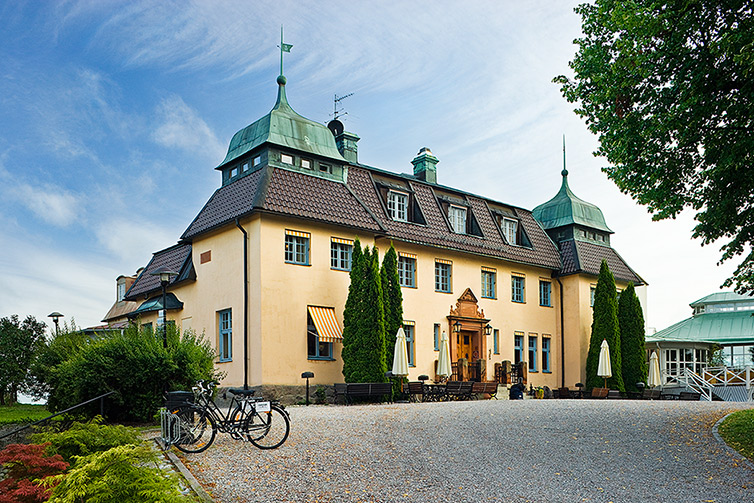 sastaholm huvudbyggnad. Arkitekt Gustaf de Frumerie